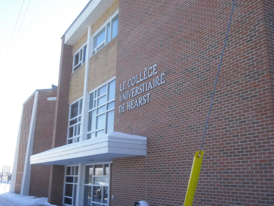 Photo of the Université de Hearst in Hearst, Ontario, Canada